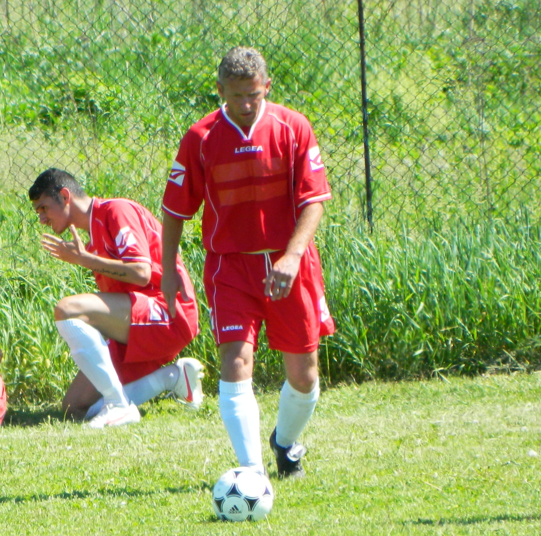 Alin Gomoi